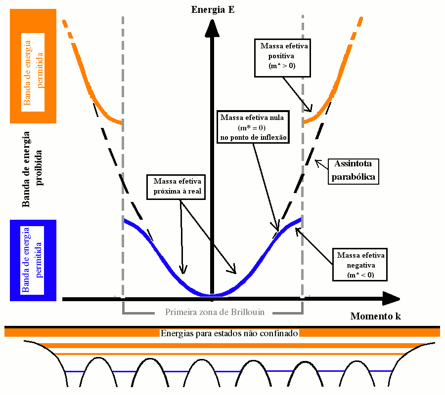 Dispersion relation, effective mass and allowed and prohibited energy bands for electrons in crystals.